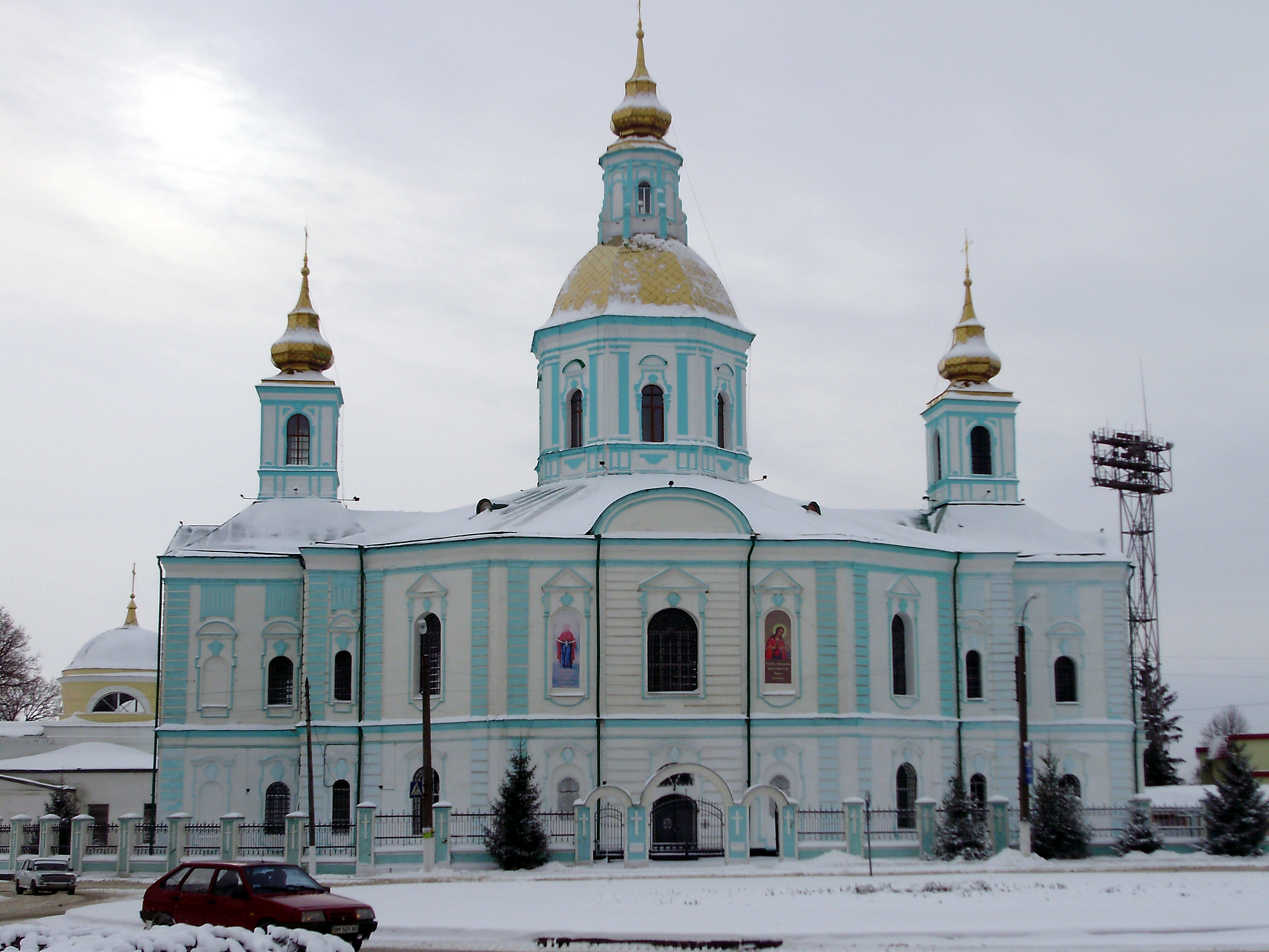 Intercession Cathedral in Akhtyrka, Ukraine (1753-62)